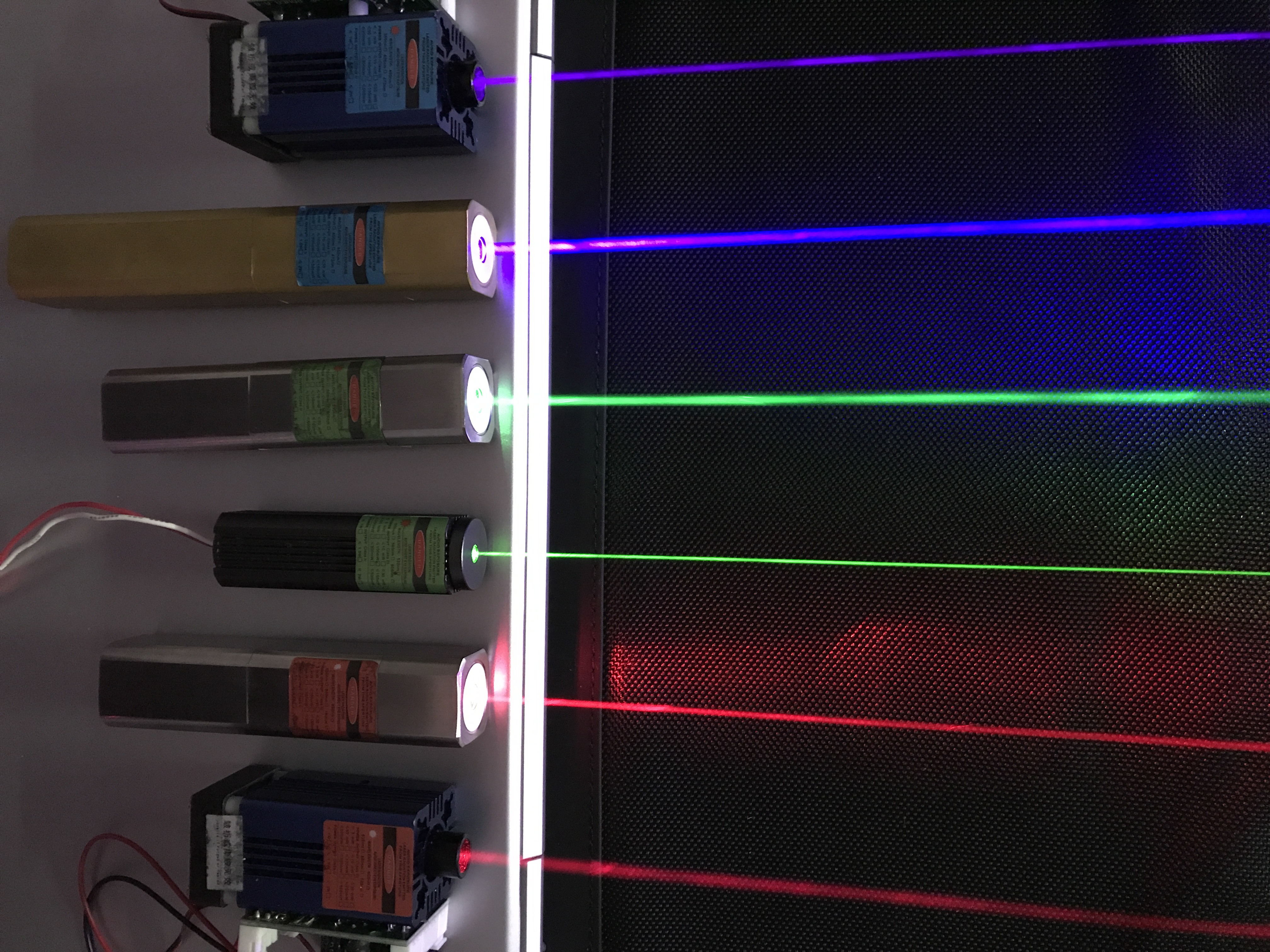 Q-Line Lasers Red lasers: 635nm, 660nm Green lasers: 520nm, 532nm Blue lasers: 405nm, 445nm